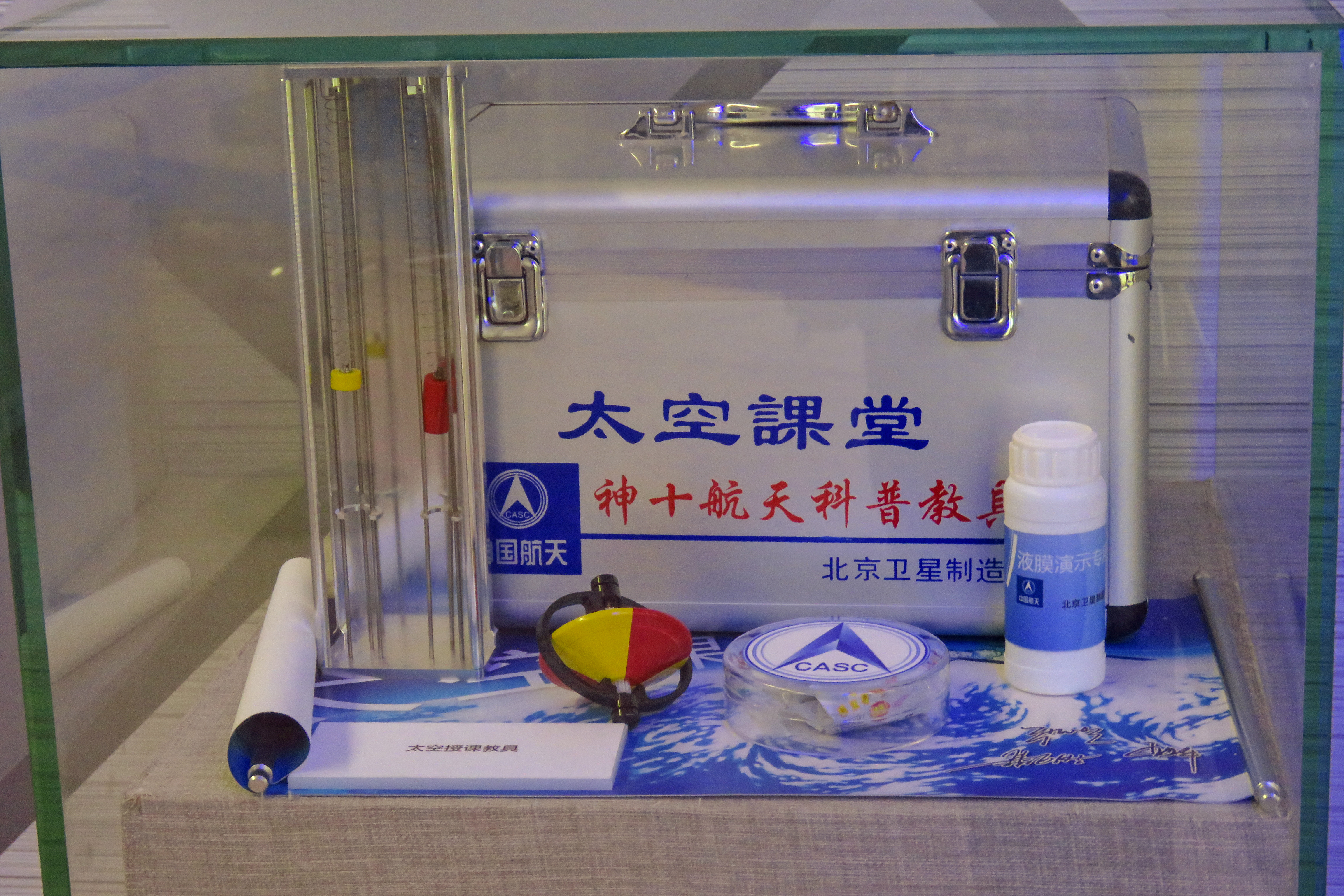 I was at NZ at that time...